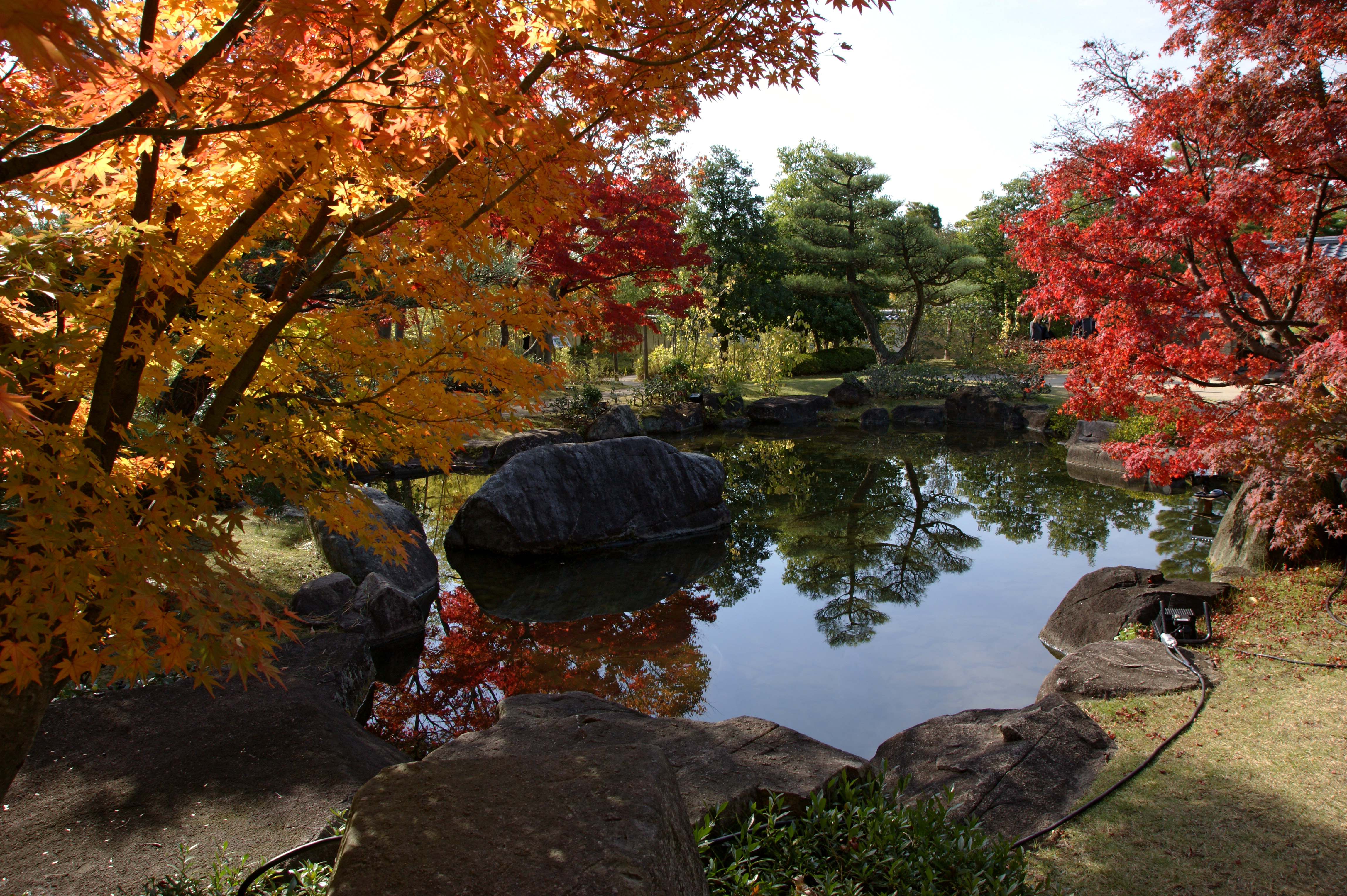 Koukoen, Himeji, Hyogo prefecture, Japan